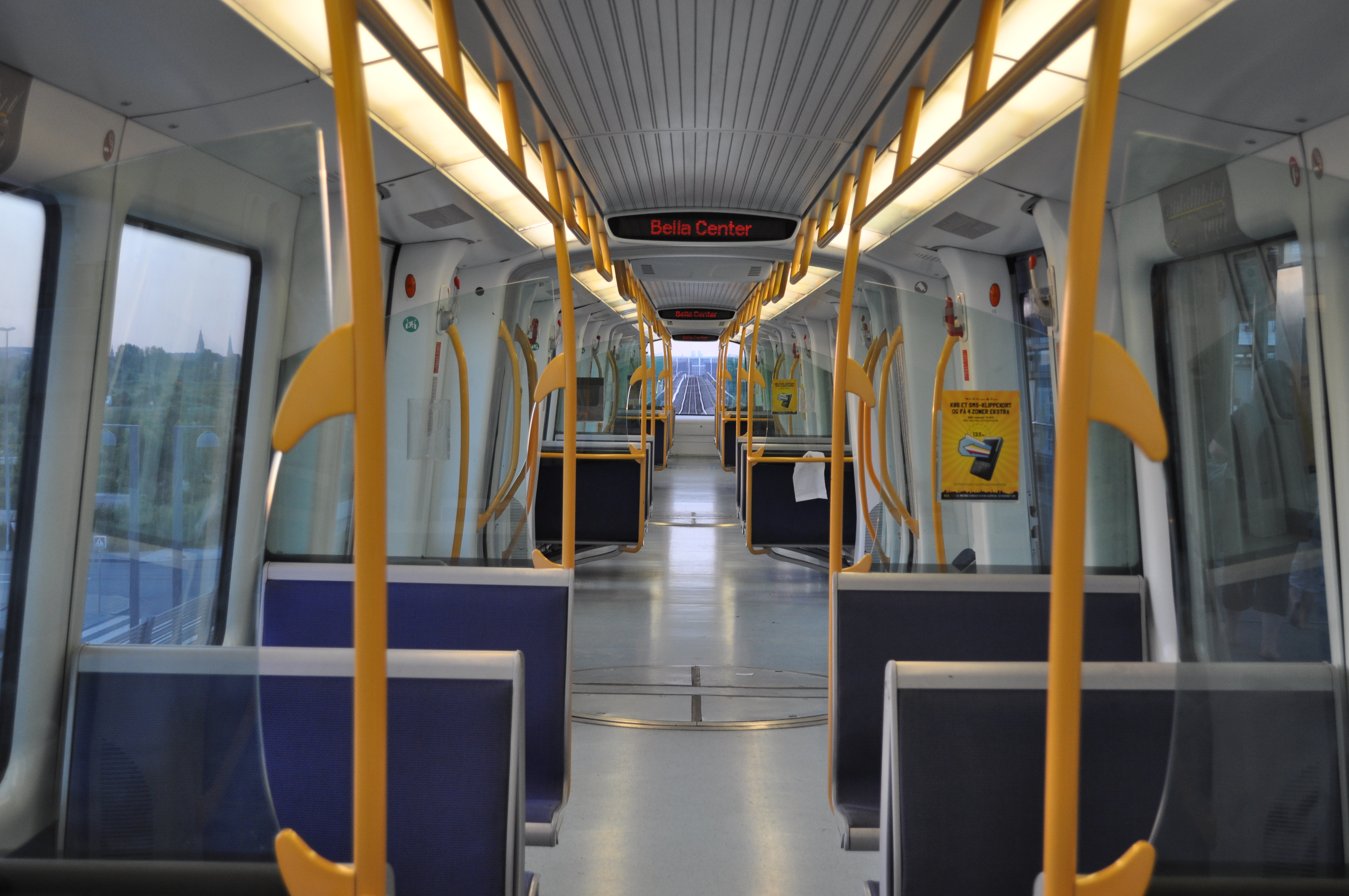 Copenhagen Metro